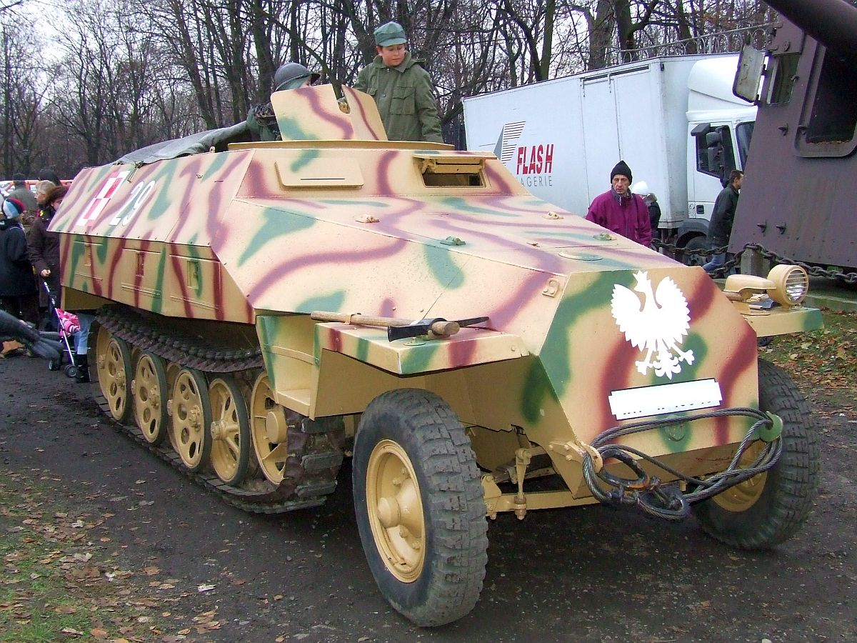 Sd.Kfz.251 armoured personnel carier - a replica of Starówka captured and used by the Poles in the Warsaw Uprising